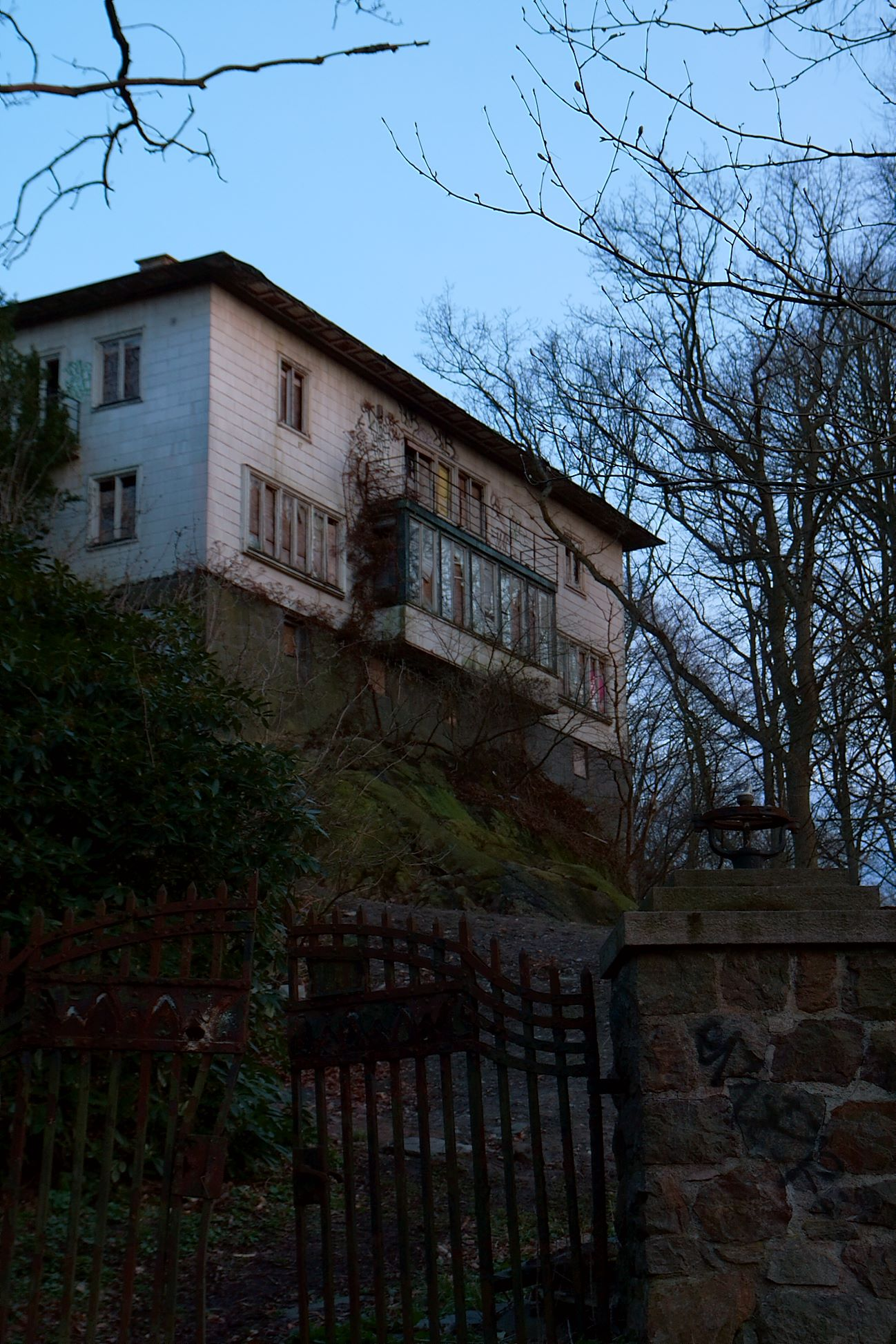 The house "Apotekarevillan" near Sahlgrenska hospital in Gothenburg, Sweden.